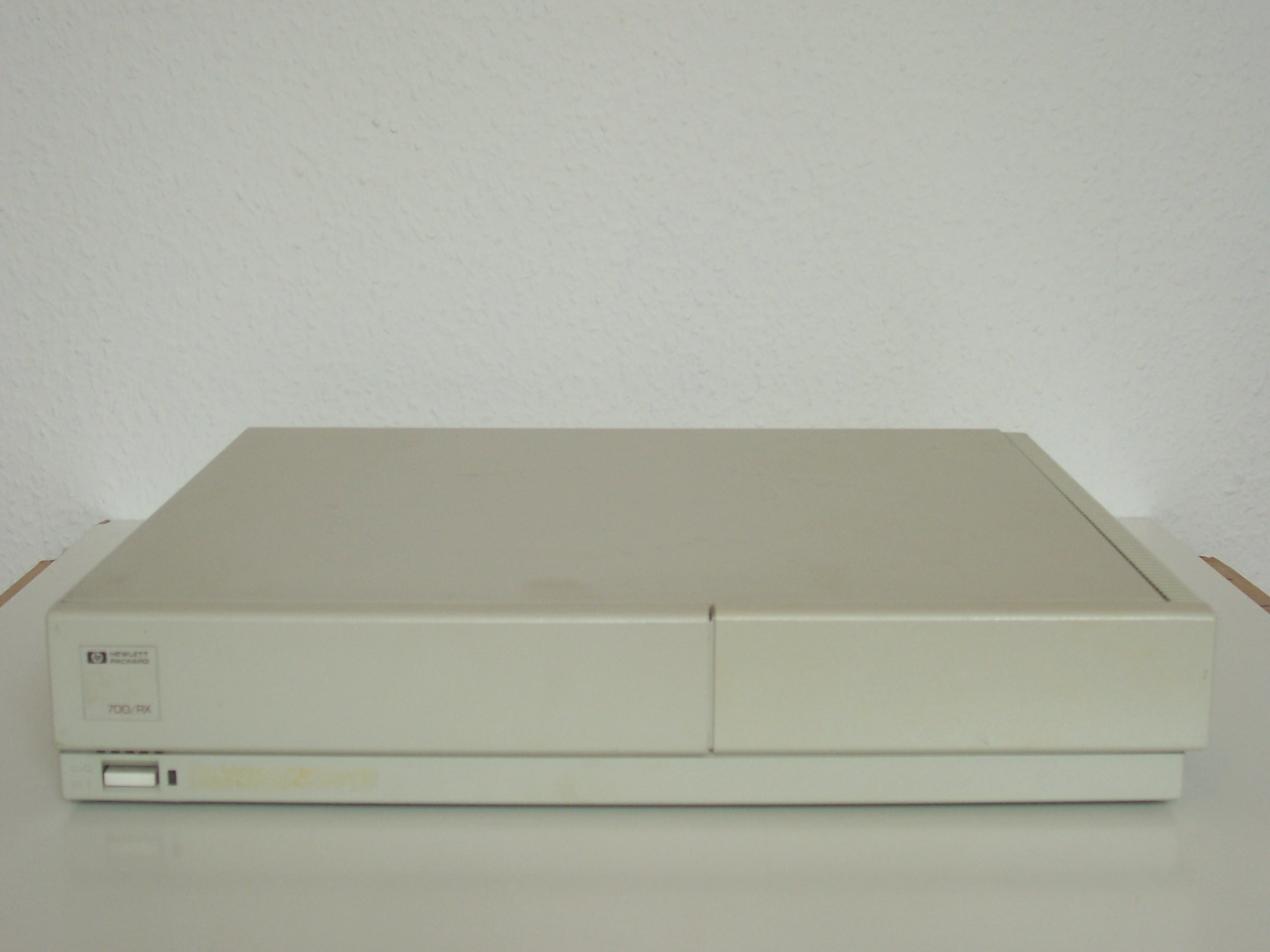 Hewlett-Packard 700/RX X-Terminal Model C2708B